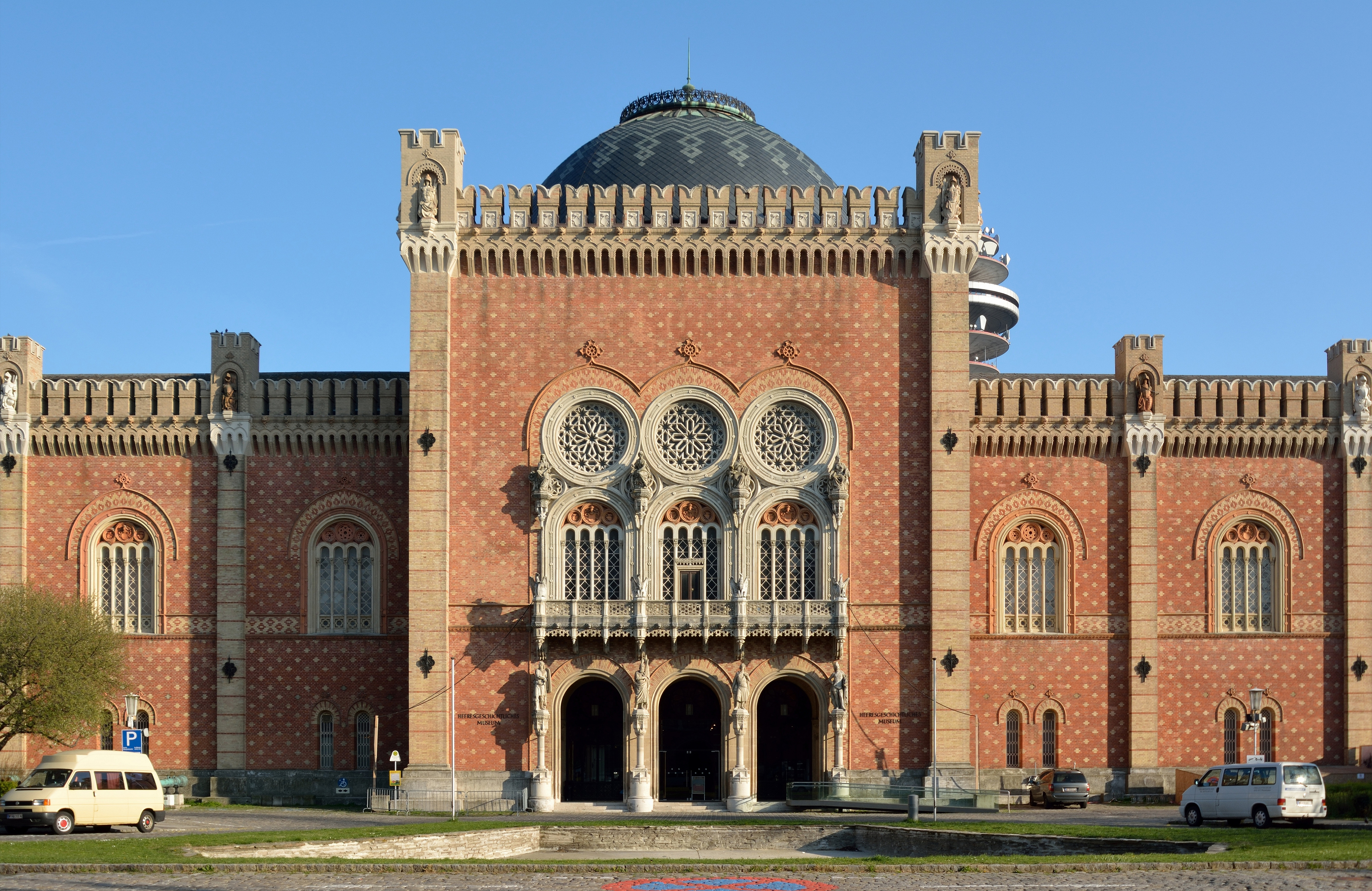 Museum of Military History, central building, 3rd district of Vienna